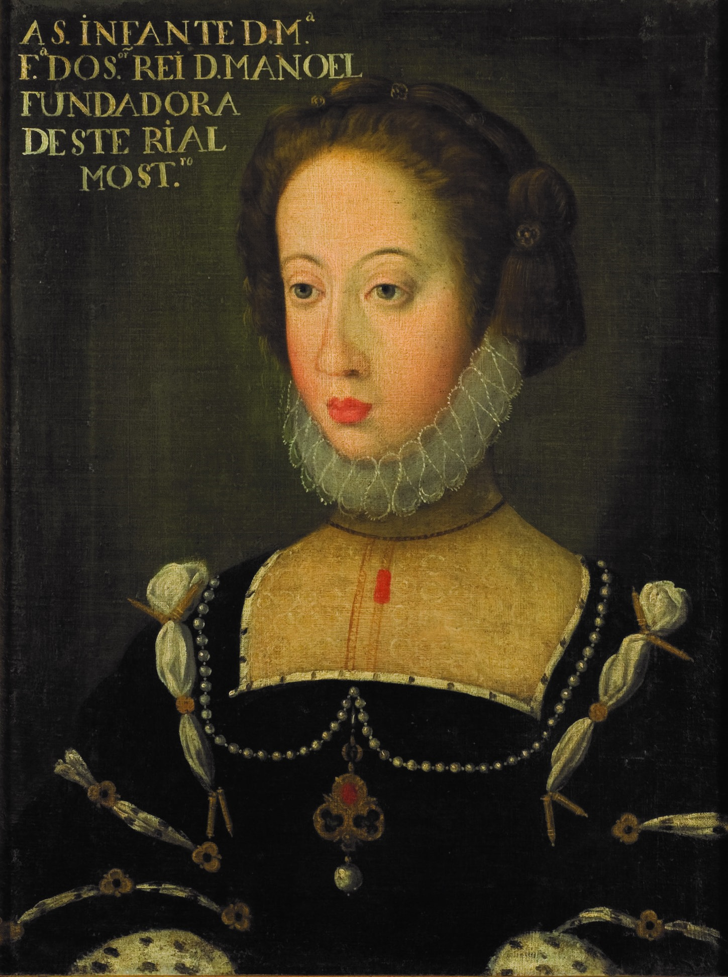 Retrato da fundadora, D. Maria, filha de D. Manuel I, no convento da Encarnacao, em Lisboa.